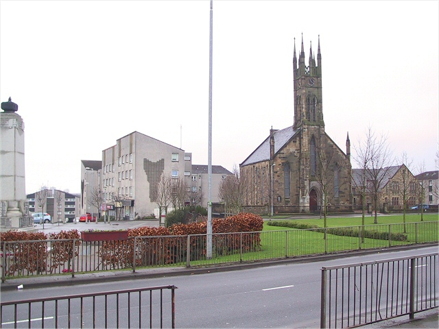 Apartments at Blackfaulds. Behind the church and cenotaph at Muirbank intersection is a parade of shops with apartments in the block above them. At the edge of the Blackfaulds estate.